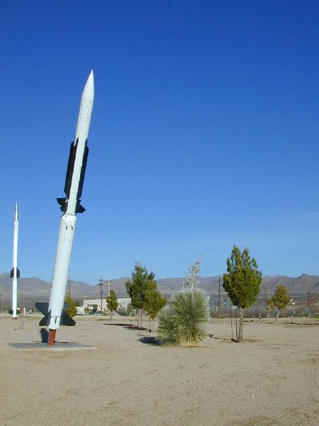 RIM-2 Terrier on display at White Sands Missile Range Missile Park.